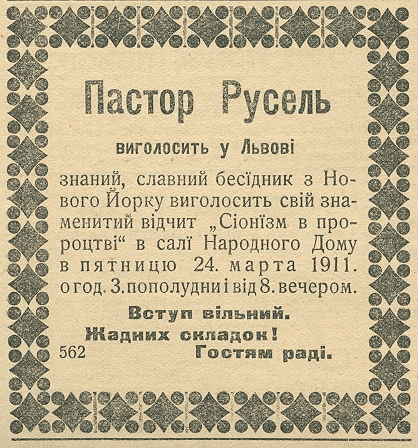 Charles Taze Russell in Lwow, 1911-24-03